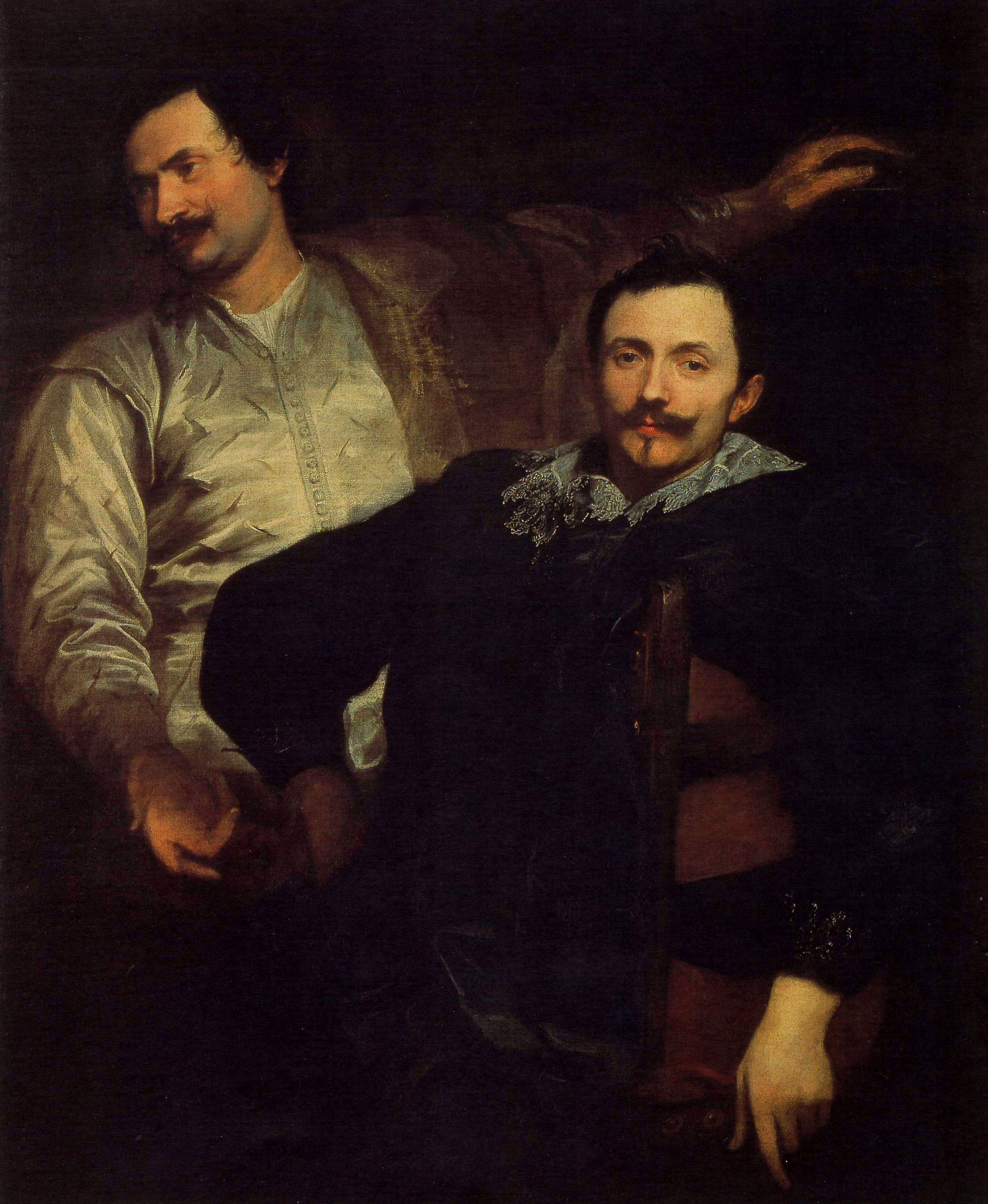 Portrait of the painters Lucas and Cornelis Wael